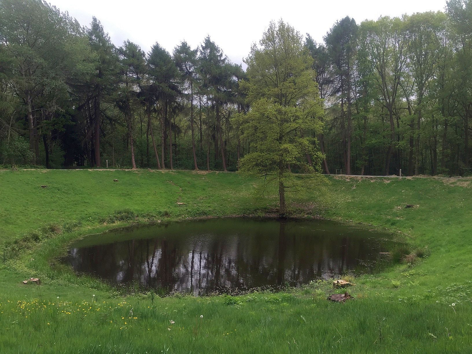 Ypres, Belgium: Hill 60 battlefield memorial park with crater of the British deep mine fired at the Caterpillar on 7 June 1917